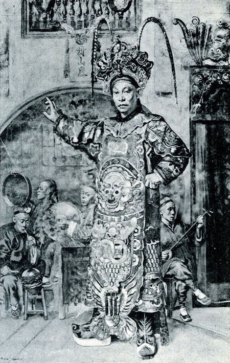 Chinese opera actor prepares for his entrance at the theatre